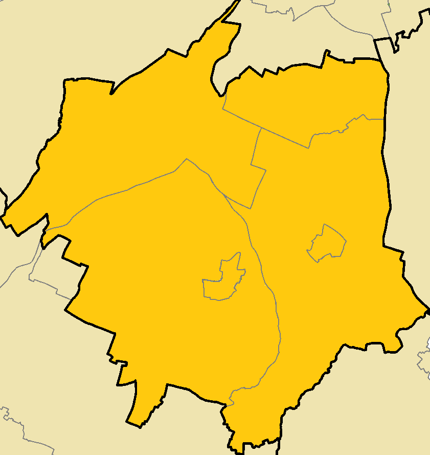 Strovolos Municipality with quarters.